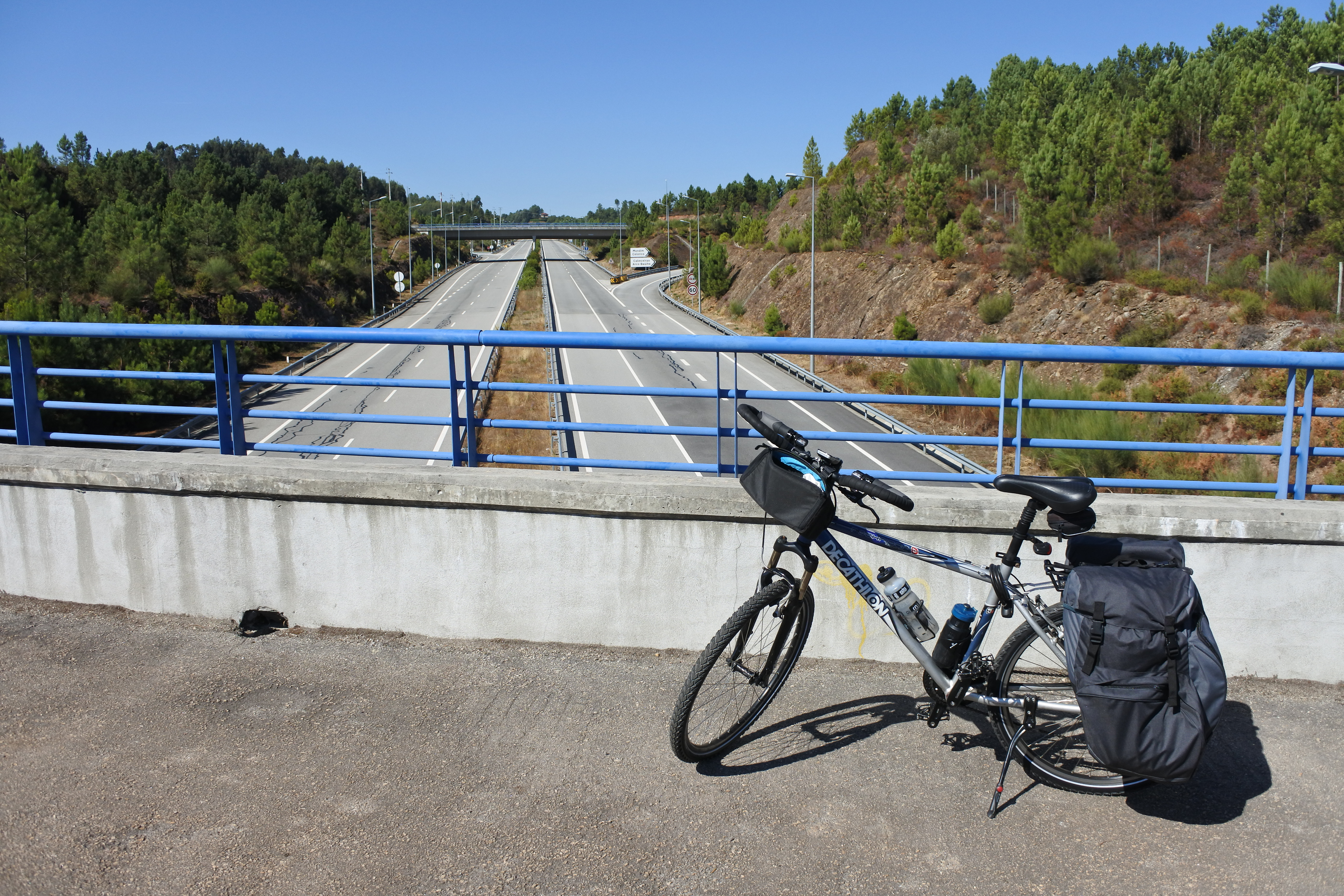 Bridge over the highway